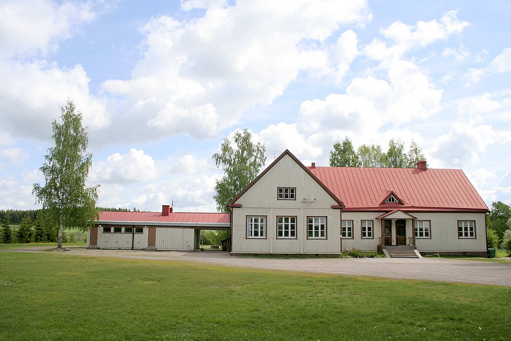 The first classes of the primary school in Pakaa The first classes of the primary school in Pakaa in the municipality of Orimattila